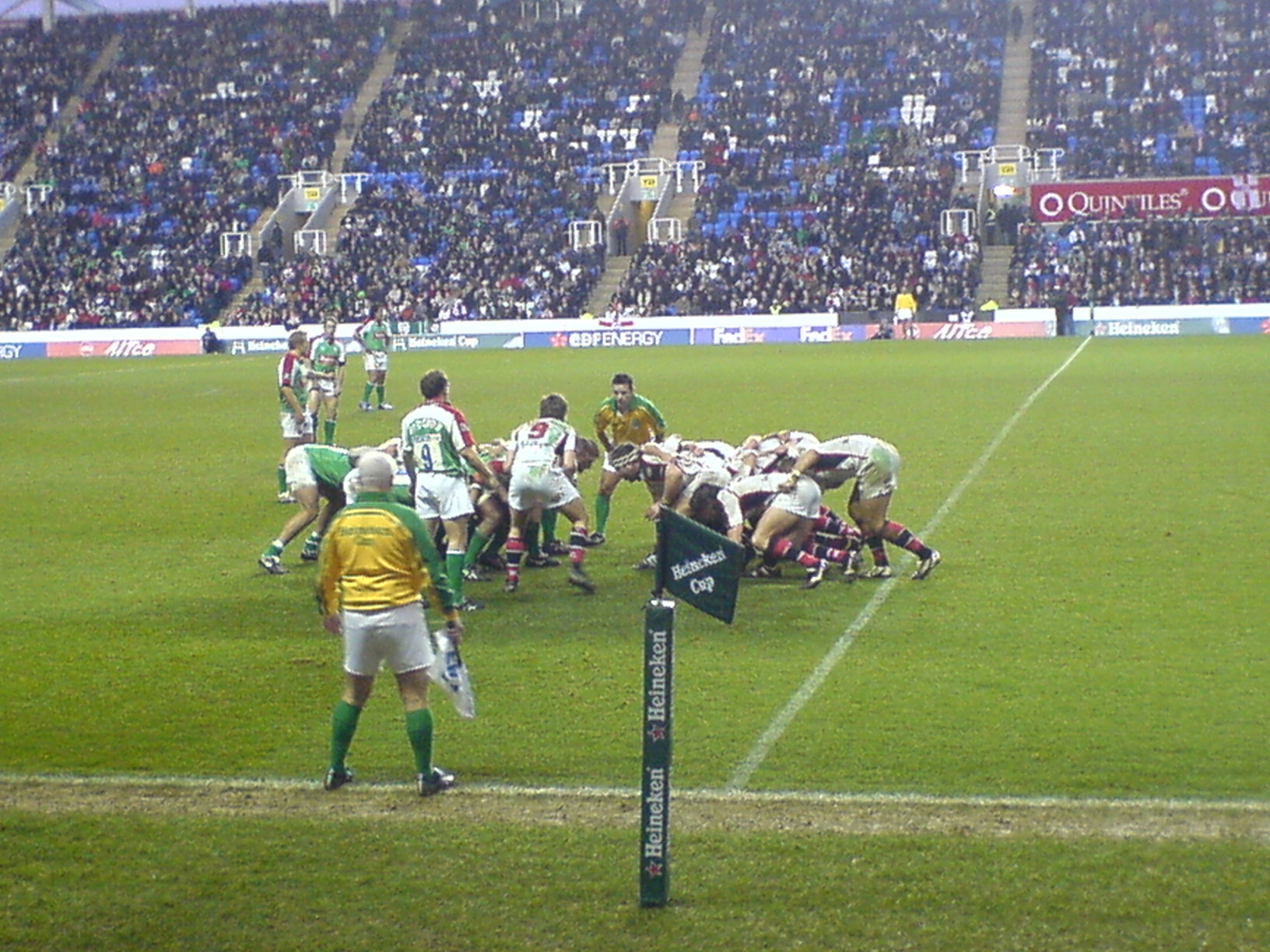 London Irish, rugby match